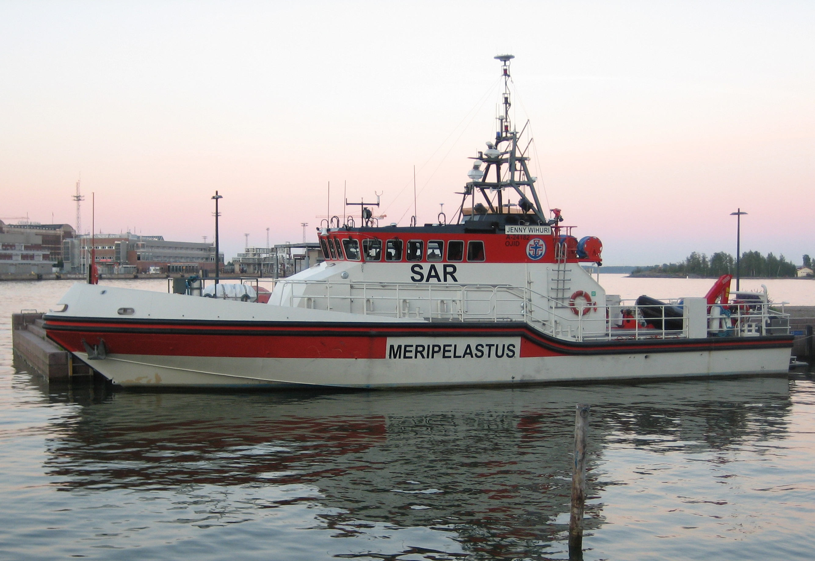 SAR (Search And Rescue) cruiser Jenny Wihuri in front of Helsinki, Finland. SAR cruiser Jenny Wihuri on the Finnish Gulf in front of Helsinki, the capital of Finland. Jenny Wihuri is a member of the fleet of the Finnish Lifeboat Society, the umbrella organization for the Finnish voluntary marine rescue associations. Jenny Wihuri was constructed in 1999. She has a speed of 18 knots, length of 23.8 meters, breadth of 5.6 meters and draught of 1.4 meters.